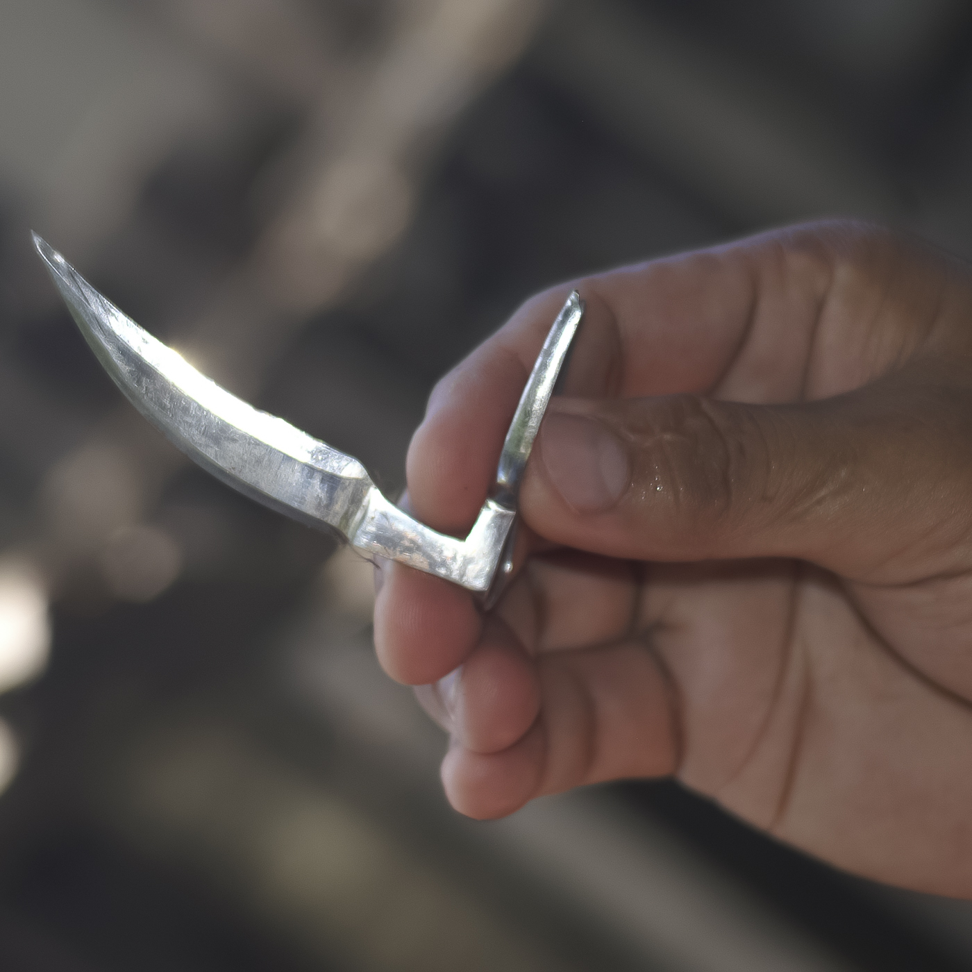 Bulacao, Cebu City, Philippines: A razorharp cockfight blade.